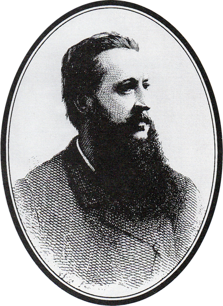 Henry Jones (1831-99), English doctor and writer, referee at the Wimbledon Championships from 1887 to 1885.